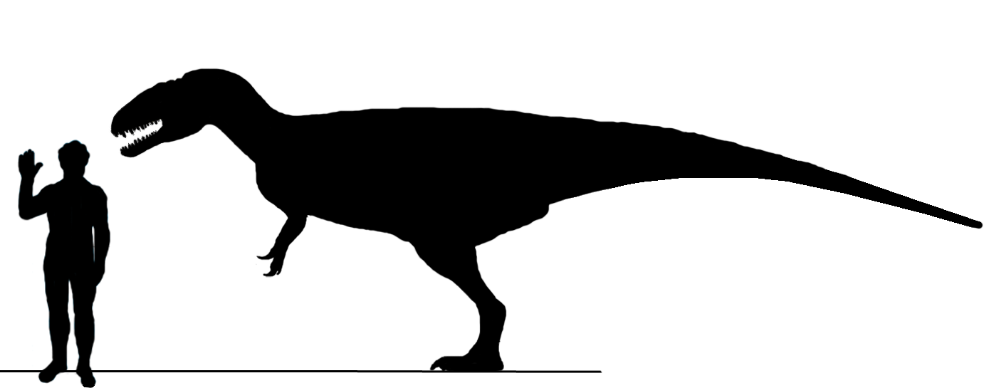 Based on MNN-GAD2-11 specimen. Body design based on Mapusaurus, Concavenator and Acrocanthosaurus.